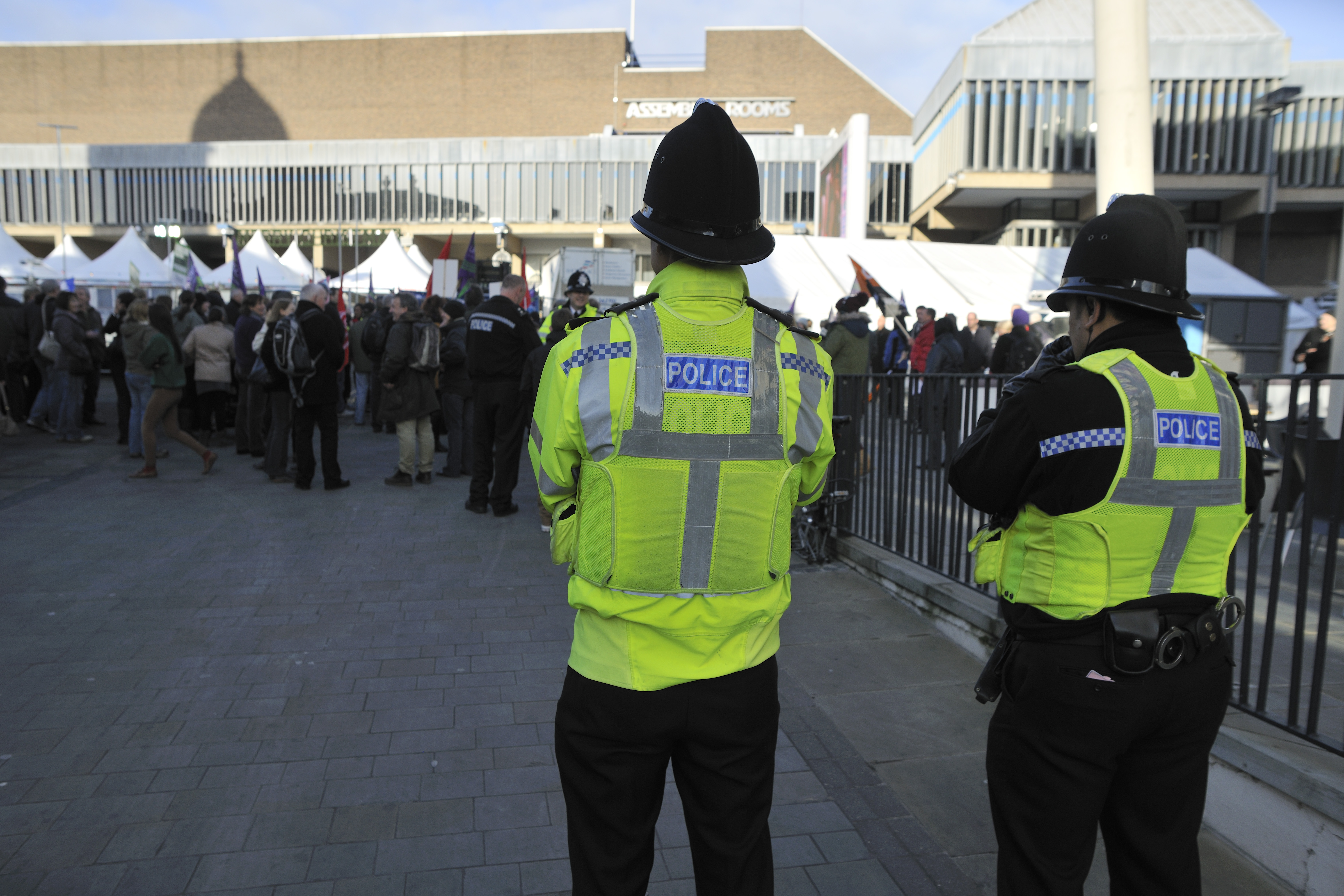 Police, seen at the public sector pensions rally held at Derby, Derbyshire on 30 November 2011.